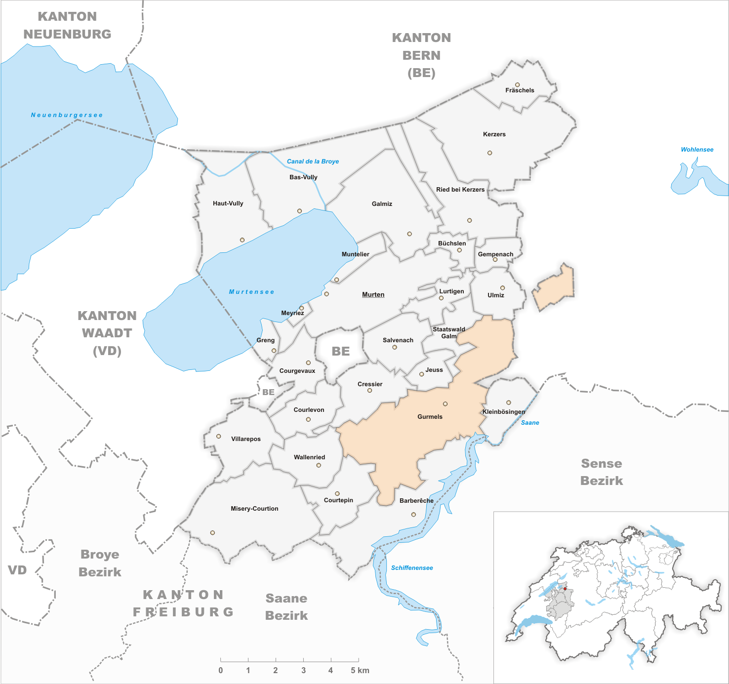 Municipality Gurmels